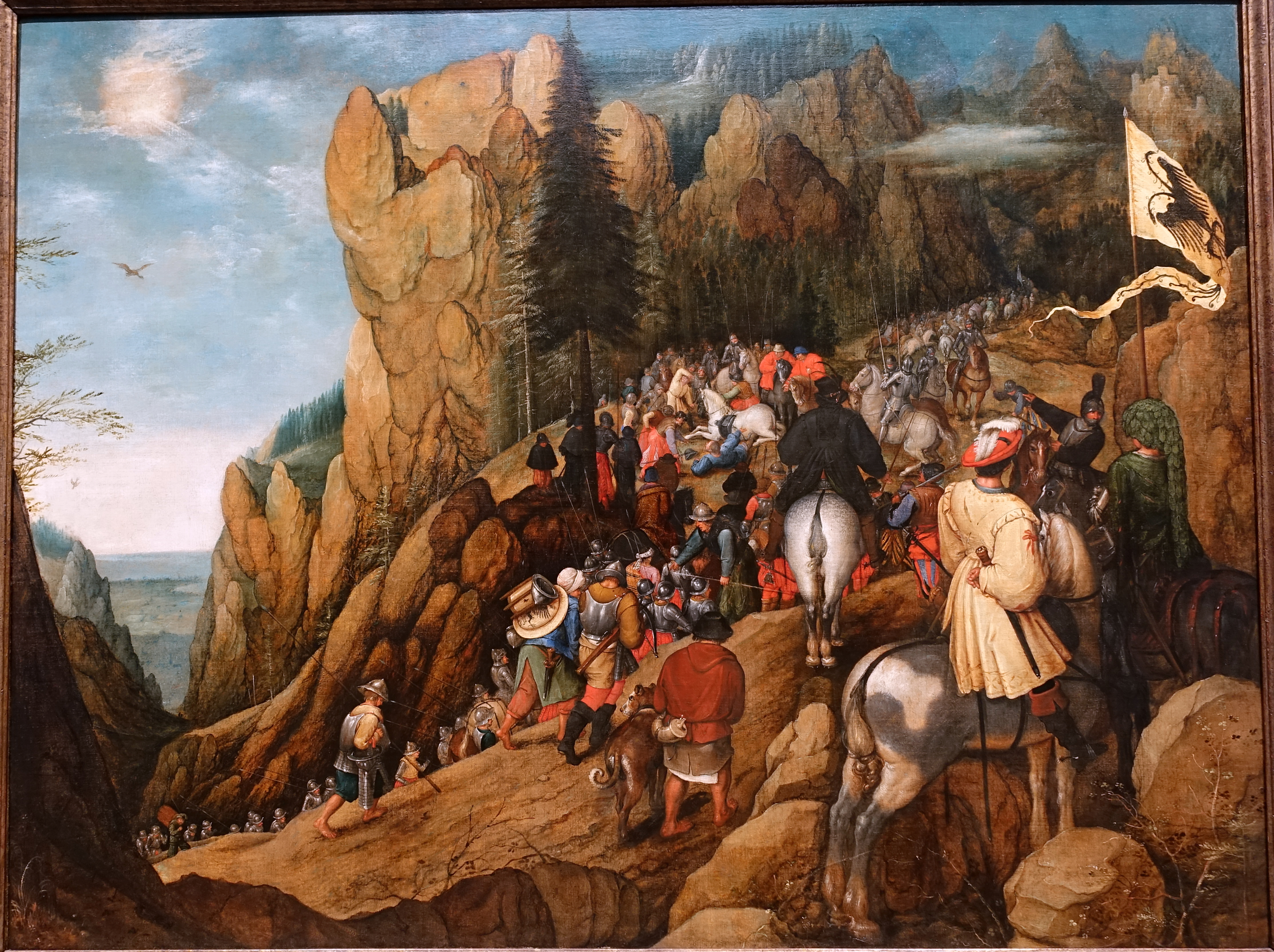 Exhibit in the Villa Vauban, Luxembourg City, Luxembourg.